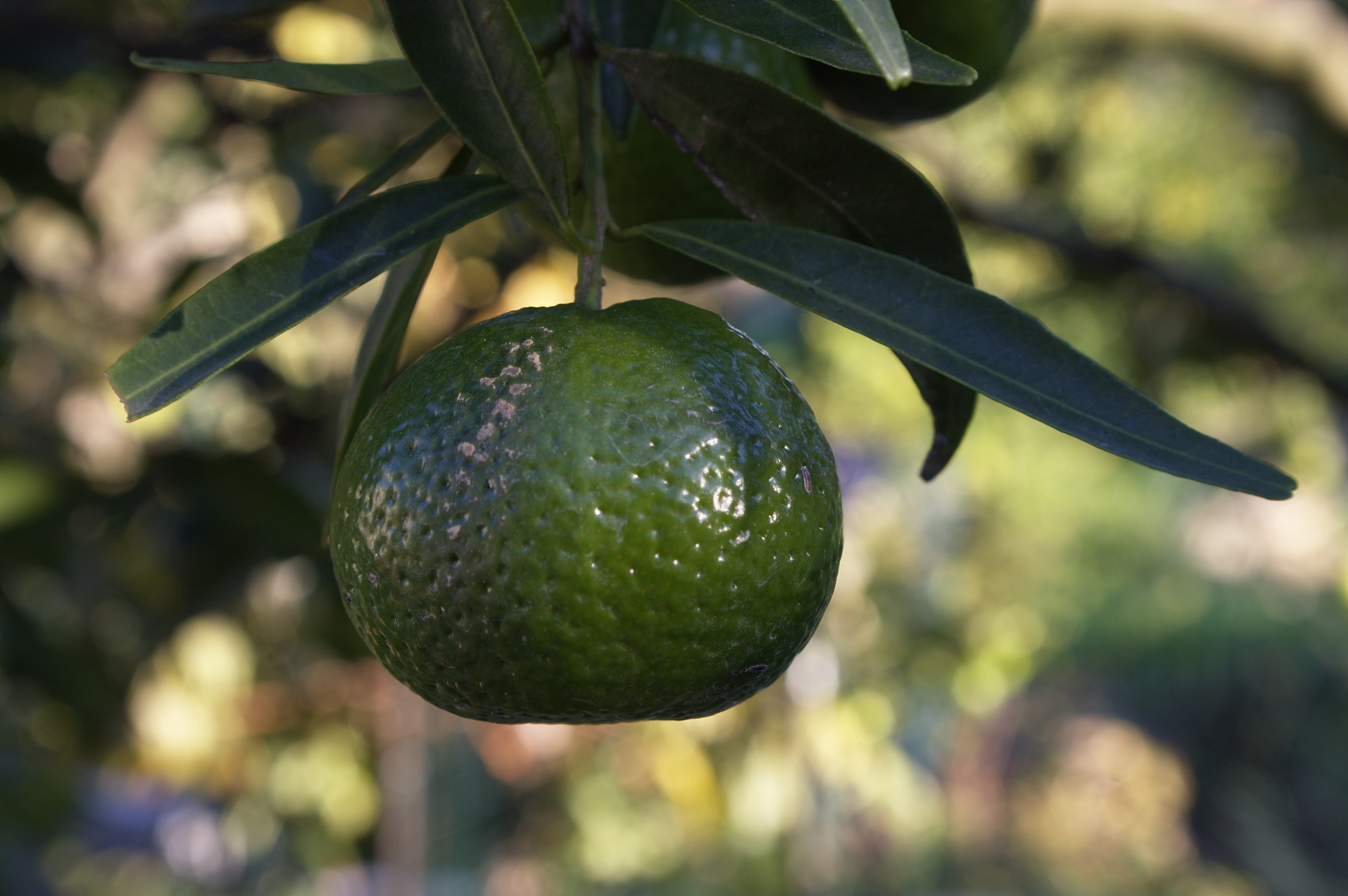 Unripe mandarin orange, unidentified cultivar.